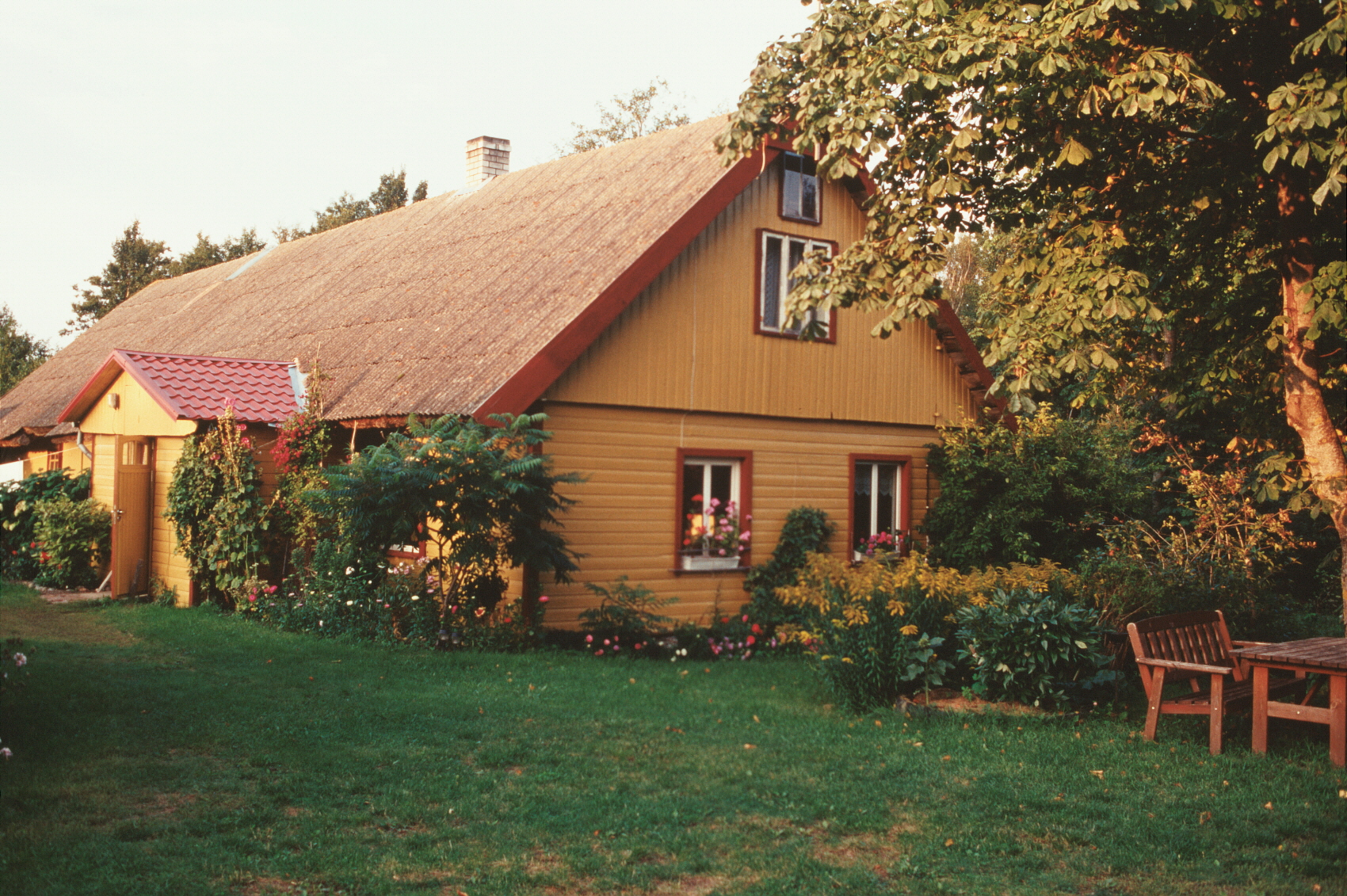 A farmhouse and its surroundings on Kihnu island in Estonia